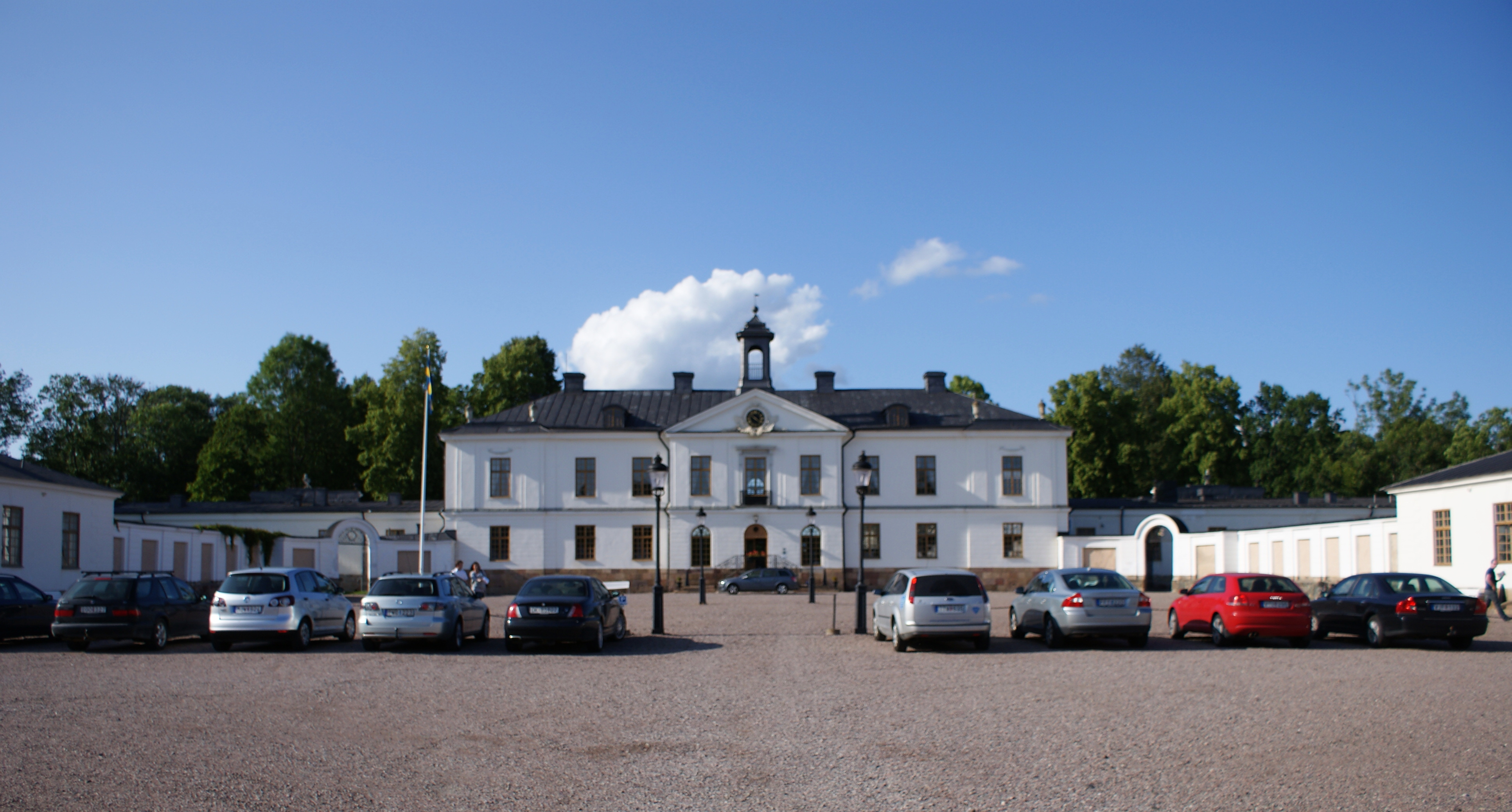 The mansion in Gimo, summer of 2009